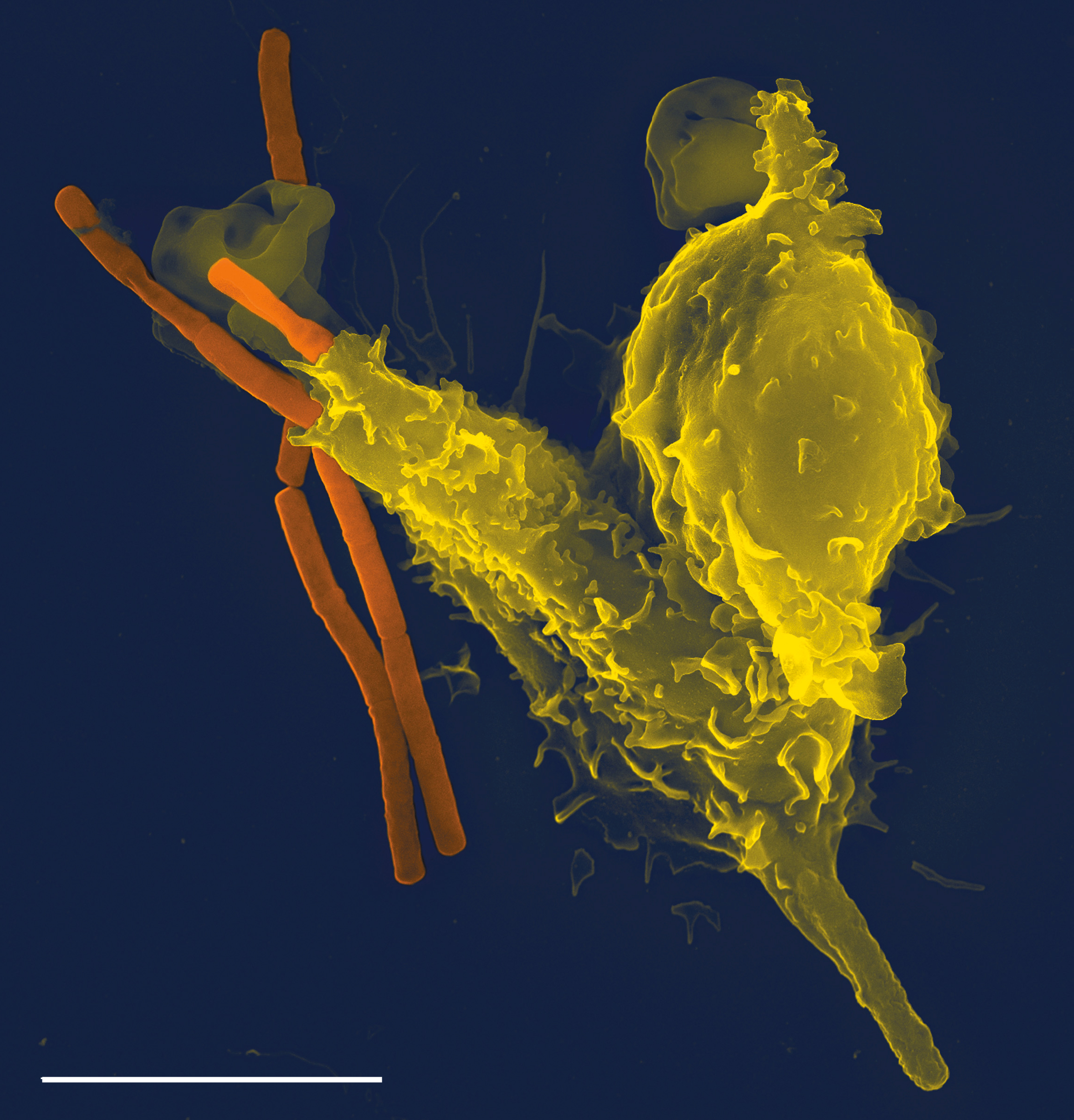 Neutrophil engulfing anthrax bacteria, taken with a Leo 1550 scanning electron microscope. Scale bar is 5 micrometers.